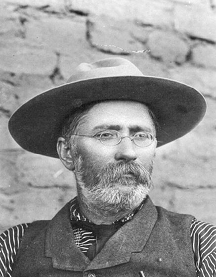 Photo of Don Lorenzo Hubbell, National Park Service.